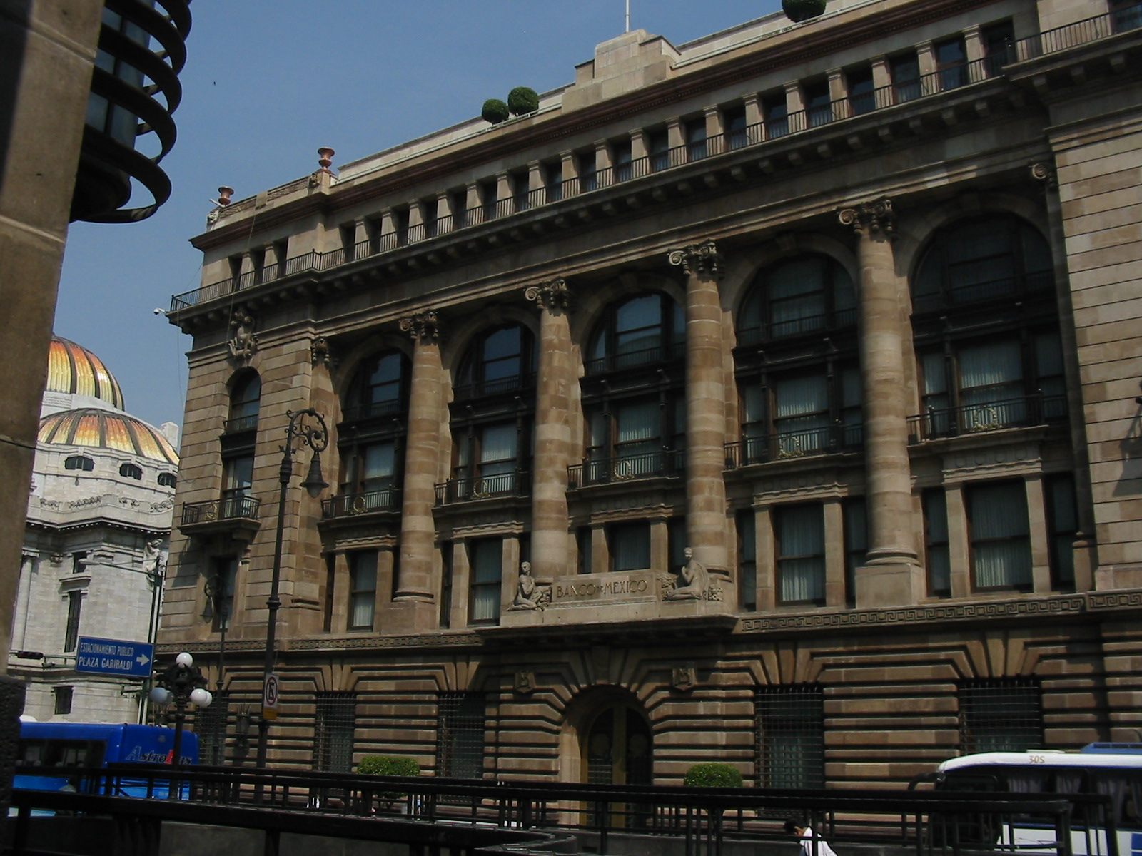 View of the Bank of Mexico building. To the left, the Palacio de Bellas Artes can be seen.